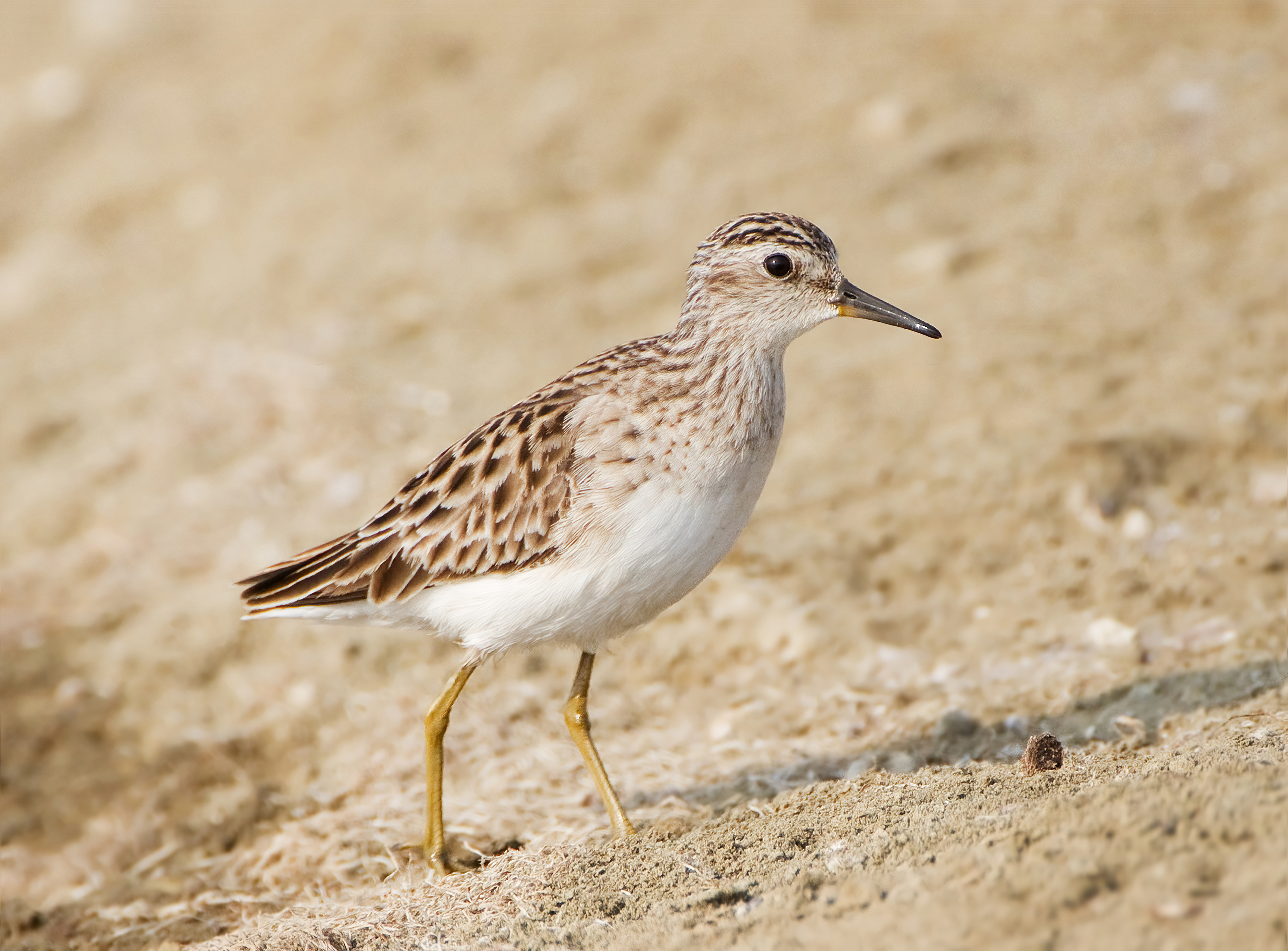 Long-toed Stint (Calidris subminuta), Pak Thale, Ban Laem, Phetchaburi, Thailand